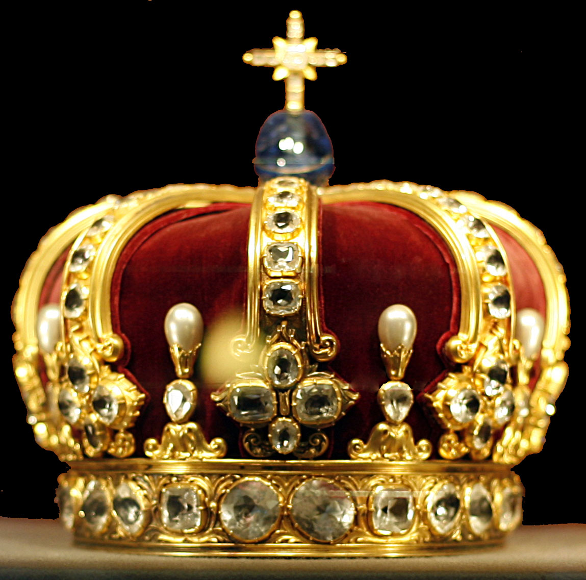 cleaned up version of earlier version Summary Description